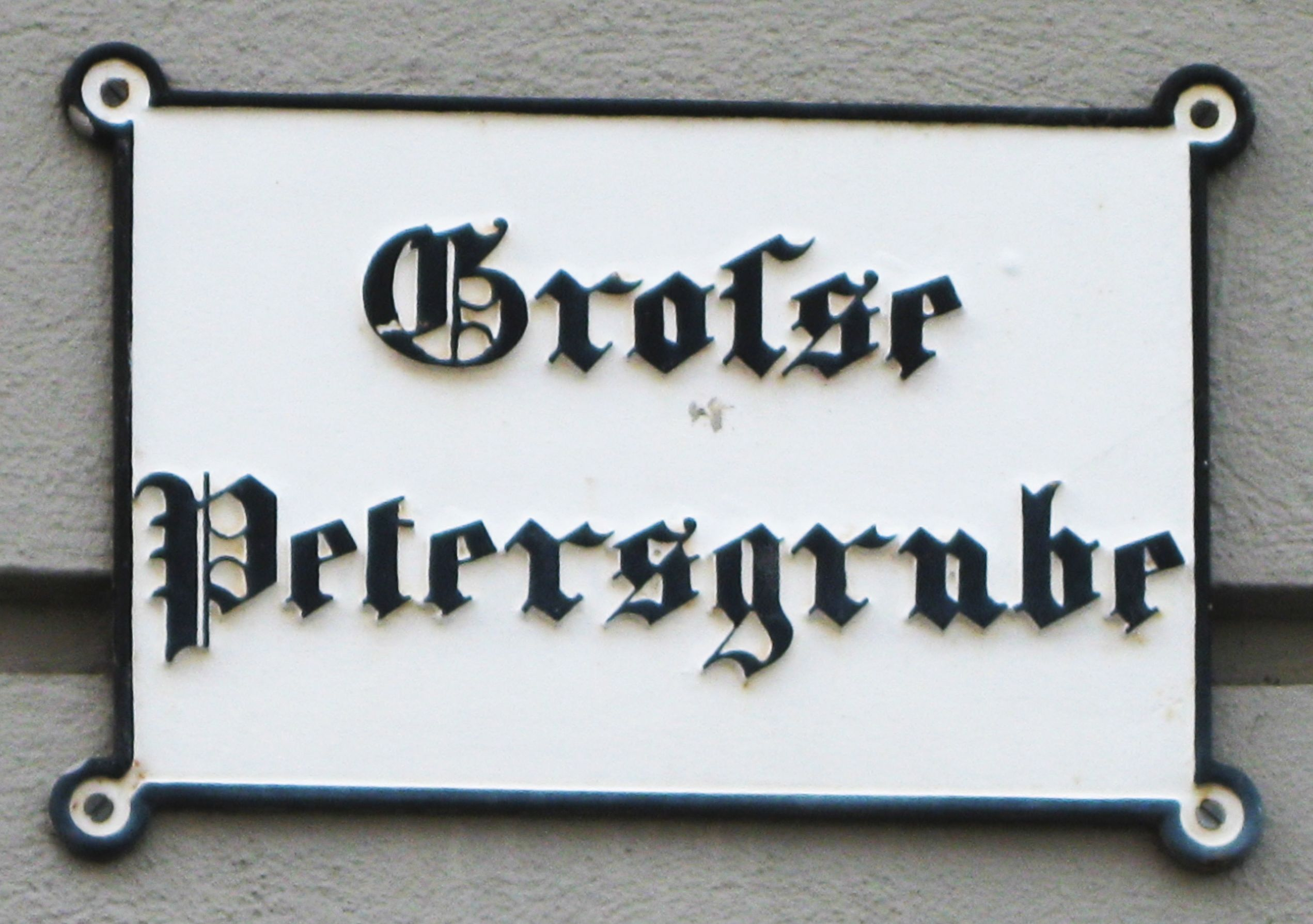 Street sign Große Petersgrube in Lübeck